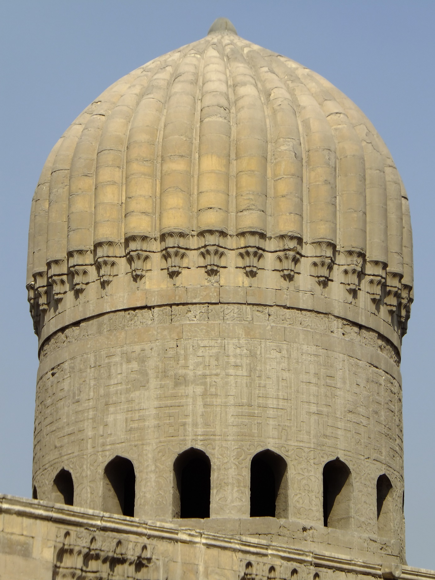 The northern dome of the Sultaniyya mausoleum, Southern Cemetery (City of the Dead), Cairo.